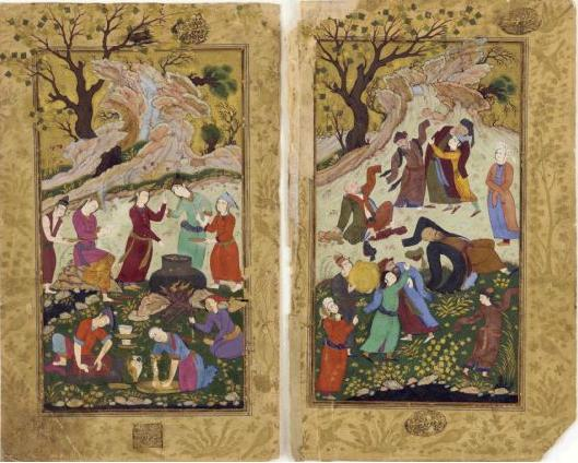 Copied by Mir ‘Imad; “Dancing Dervishes”, Double-page composition from an illustrated manuscript of the “Gulistan (Rose Garden)” of Sa’di, Iran, ca. 1615; Opaque watercolor, ink, and gold on paper (26.9 x 16.4 cm). Lent by the Art and History Collection; Courtesy of the Arthur M. Sackler Gallery, Smithsonian Institution, Washington, DC: LTS1995.2.174.1-.2 Photo: Courtesy of the Sackler Gallery, Smithsonian Inst.